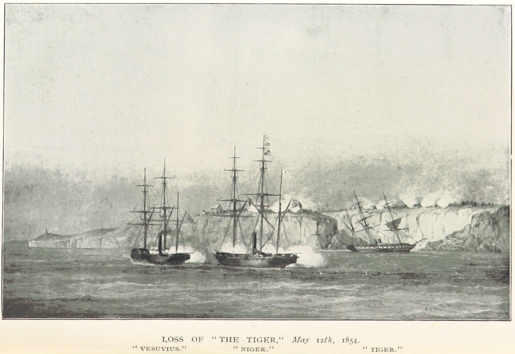 HMS Tiger (1849) runs aground during the Crimean War. Nearby are HMS Niger (1846) and HMS Vesuvius (1839)